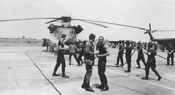 Air Force HH-53 crews from 21st SOS celebrate the successful finish of Operation Eagle Pull. Air Force helicopters extracted the Marines of the Eagle Pull command group